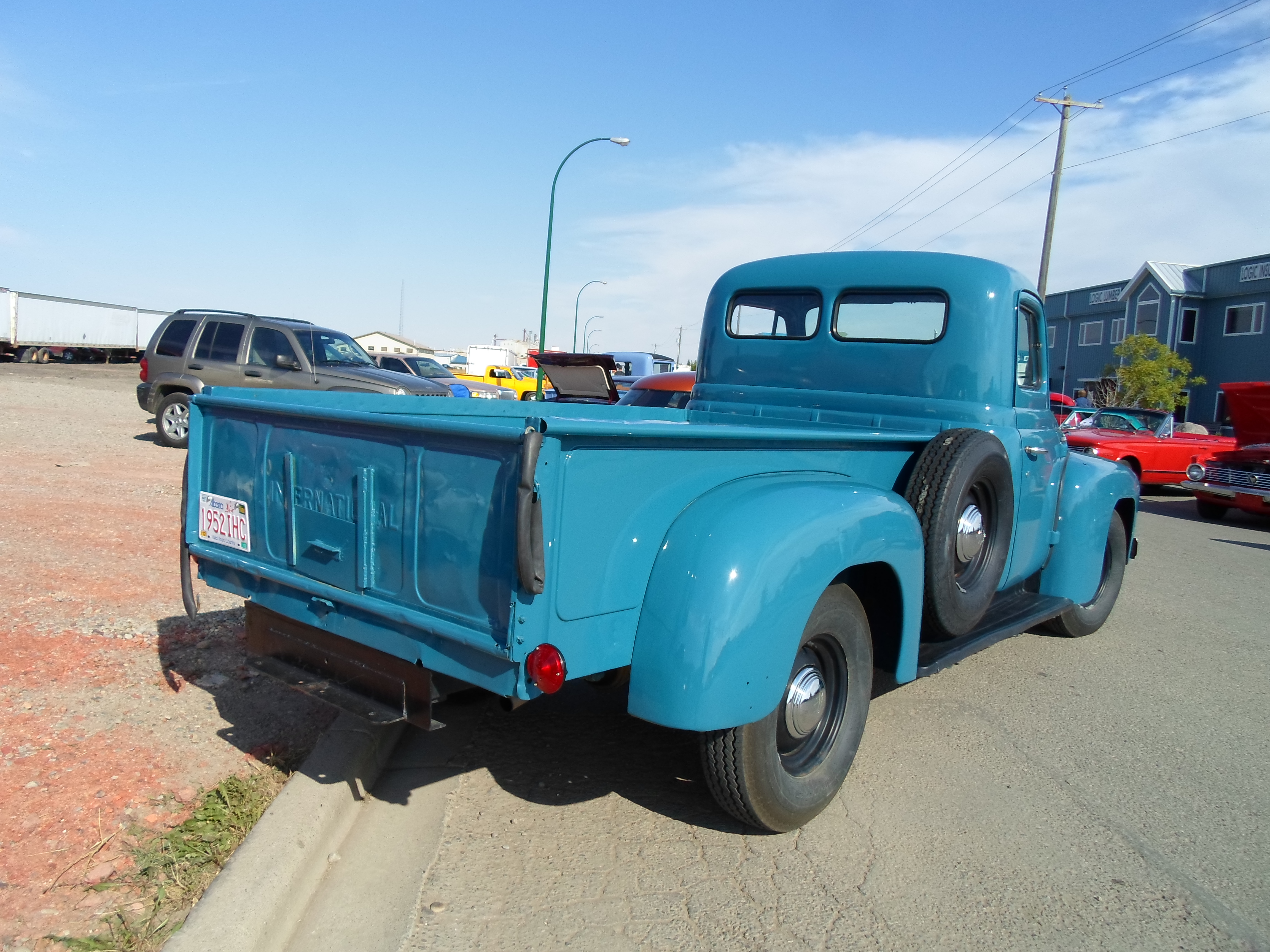 A very nice 1952 International L-110 series pickup truck